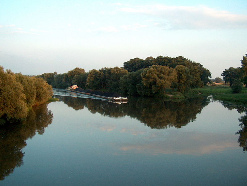 Estuary of Osobloga River into Odra River at Krapkowice.